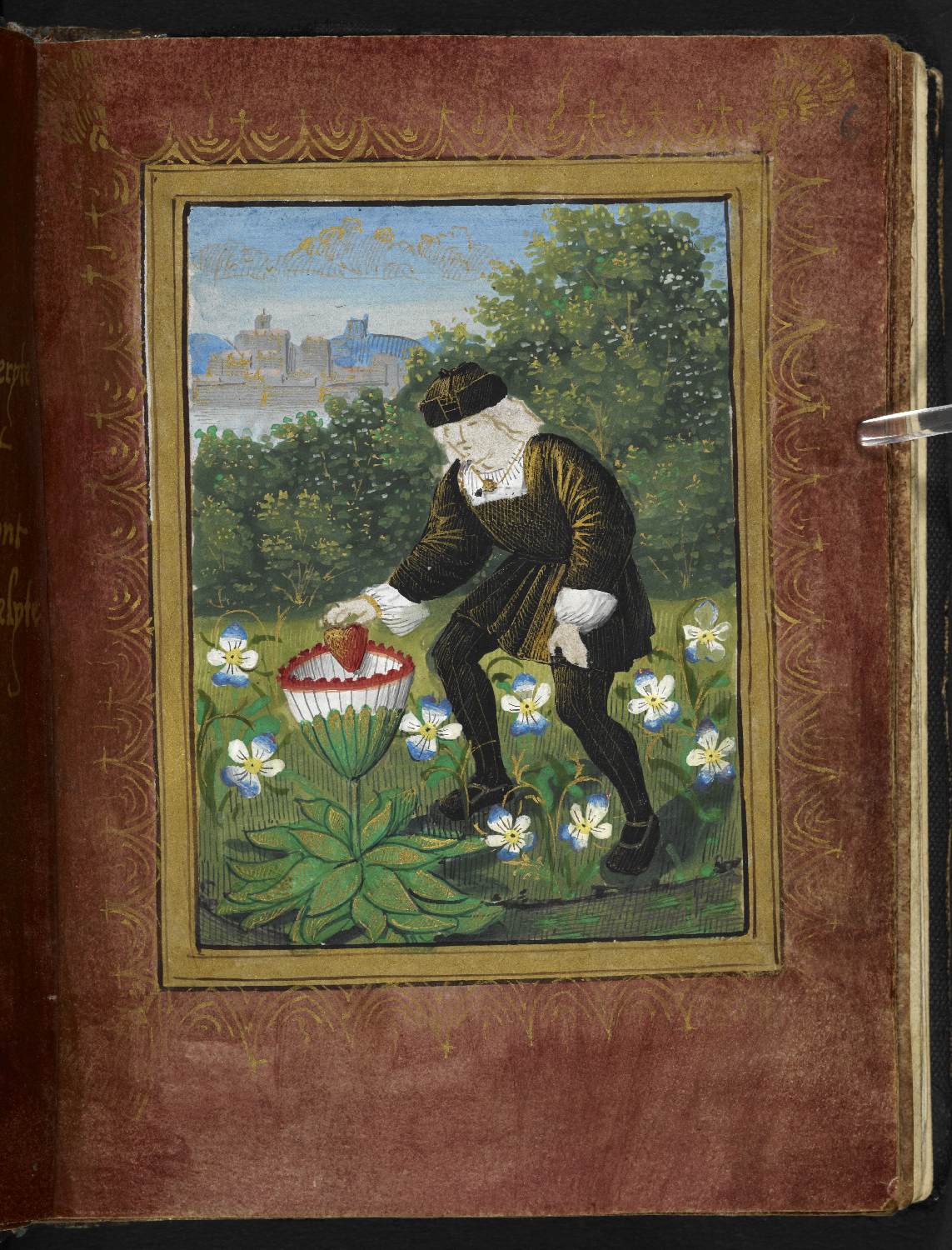 Miniature on fol. 6r of the Petit Livre d'Amour (Stowe MS 955) by Pierre Sala. This miniature shows the author dropping his heart into a marguerite flower symbolizing his mistress, Marguerite Bullioud. A portrait of Sala by Jean Perréal is found on fol. 17r. The painter left the face of Sala to be filled in by Perréal, but the miniature was left unfinished. Immediate source: bl.uk.